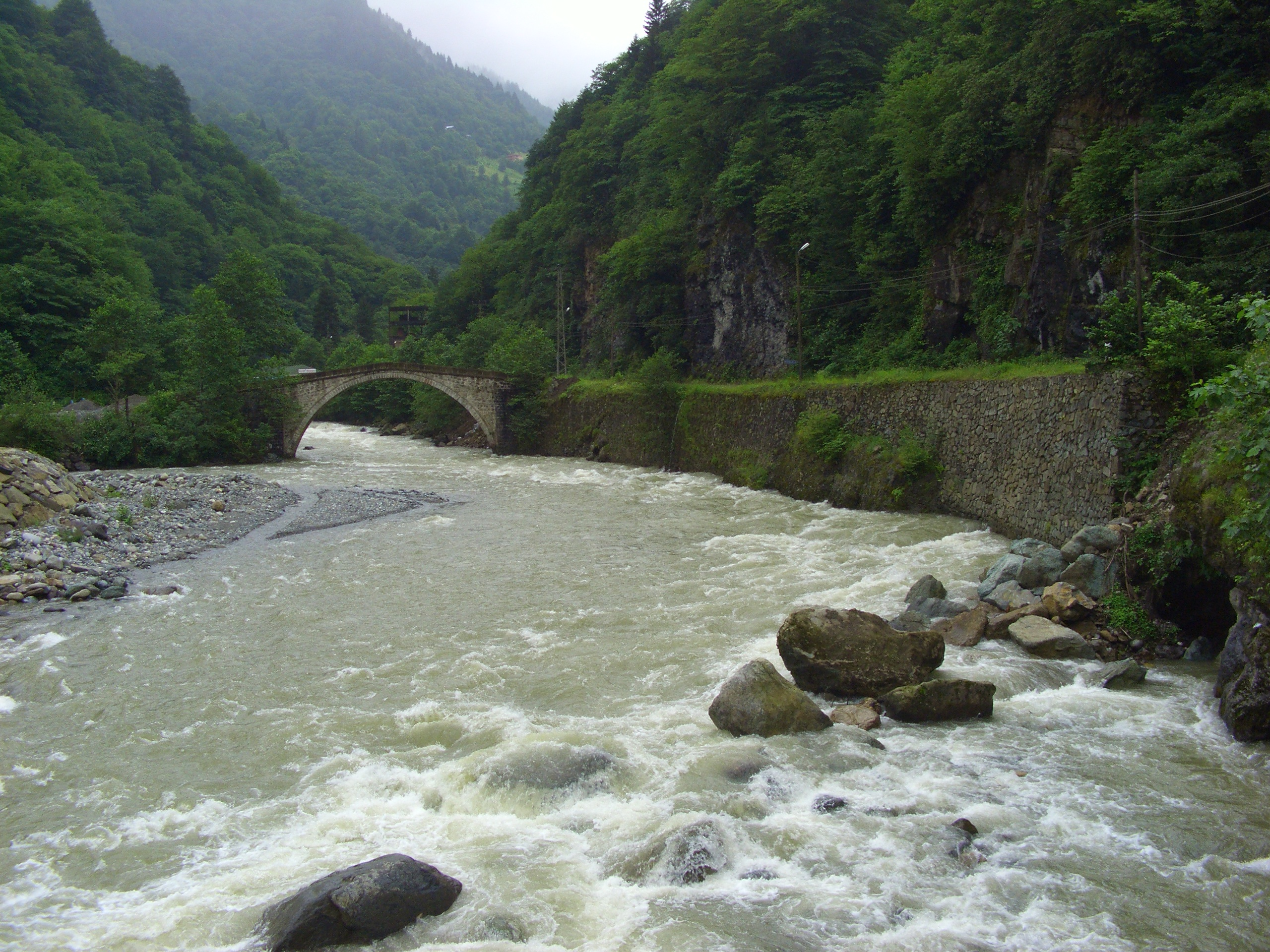 Fırtına Deresi and Camlihemsin Bridge, an arched stone bridge on it (means tempest stream in eng.). Photo was taken in Camlihemsin town of Rize Province.